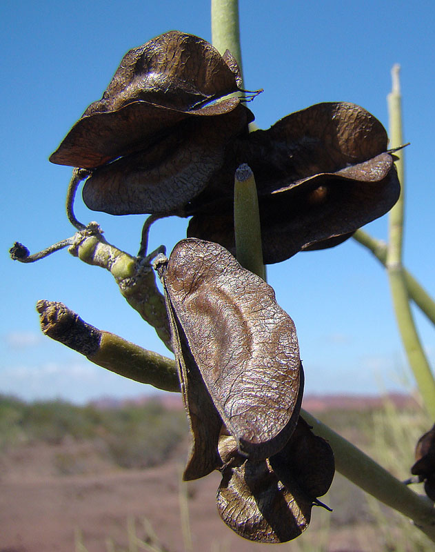 Pods of one of several species called Retamo in Argentina. In context at